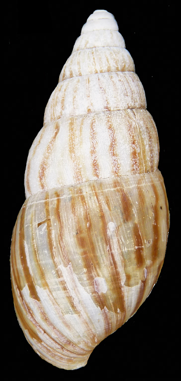 Photo of abapertural view of the shell of Achatina vassei.